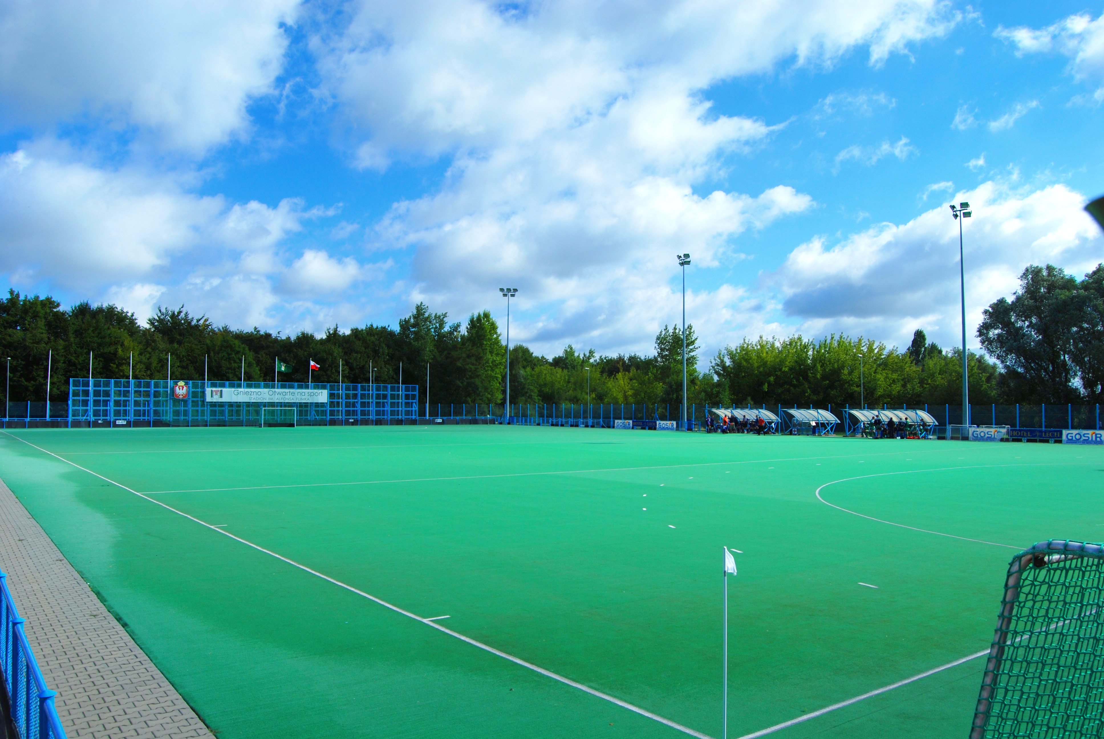 Stadion_im.Alfonsa_Flinika